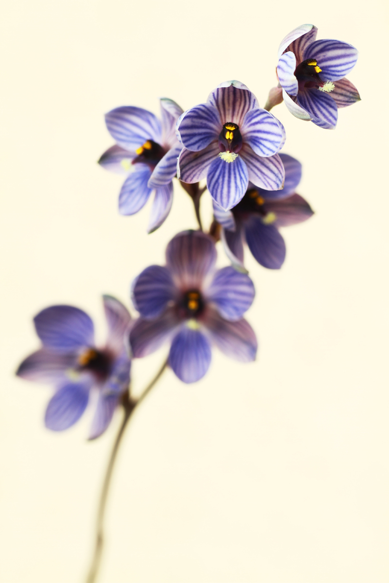 Thelymitra campanulata; 'Shirt' or 'bell' Orchid; Enneaba Western Australia